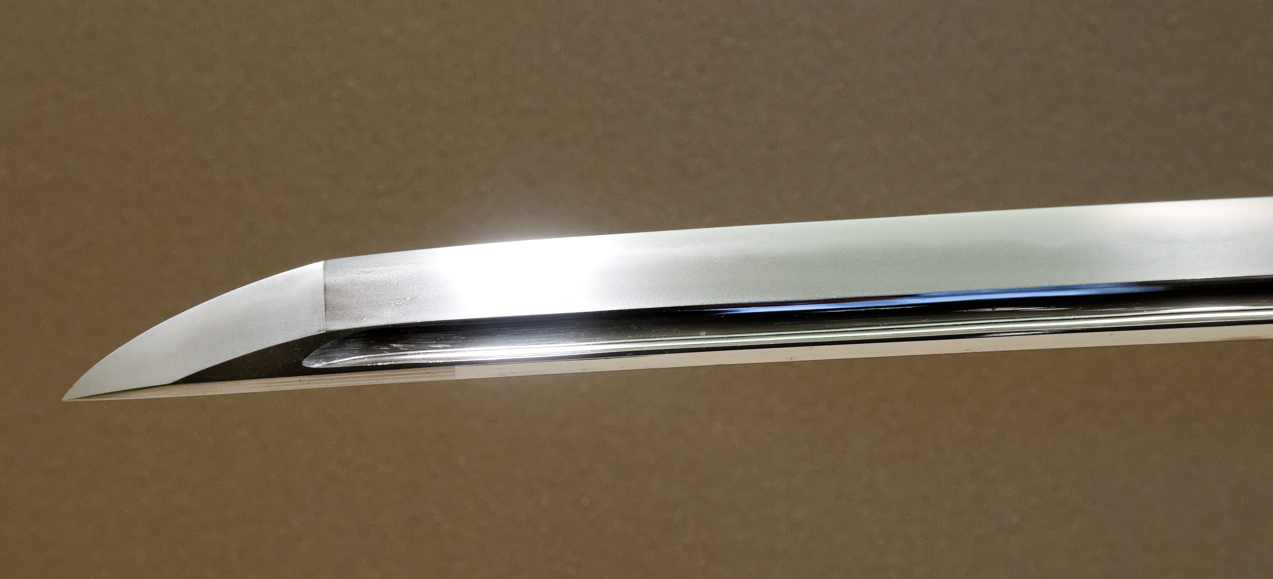 Kissaki (point) of a katana inscribed by Iyonojō Muntesugu, Edo period.